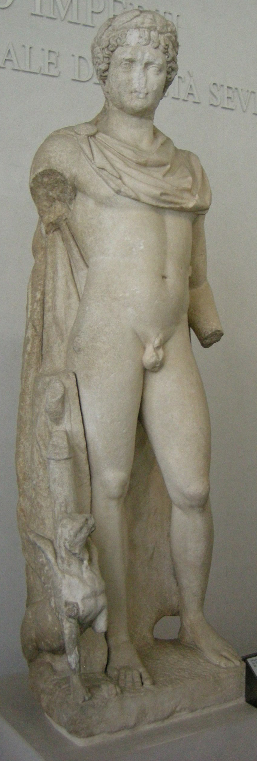 read filename pls